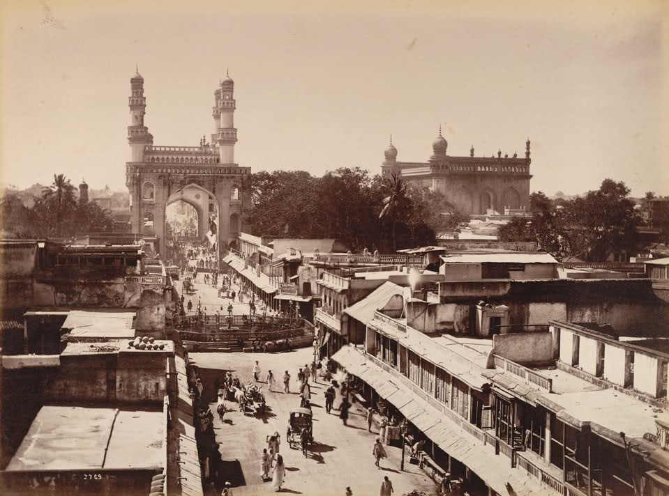 Photo of Charminar in 1880 with Gulzar Houz shown in the foreground